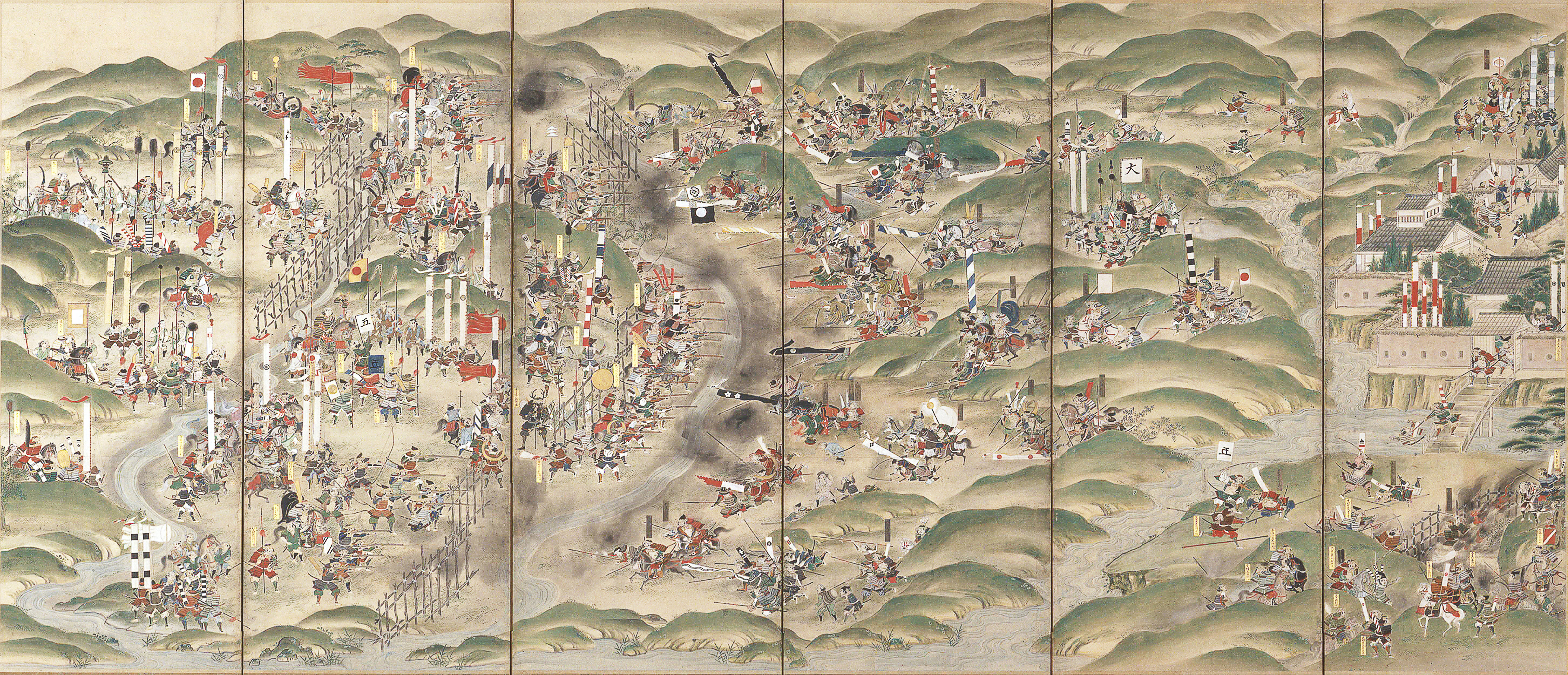 The Battle of Nagashino (six fold screen). It happened on 28 June 1575 in Nagashino, Mikawa Province, Japan.